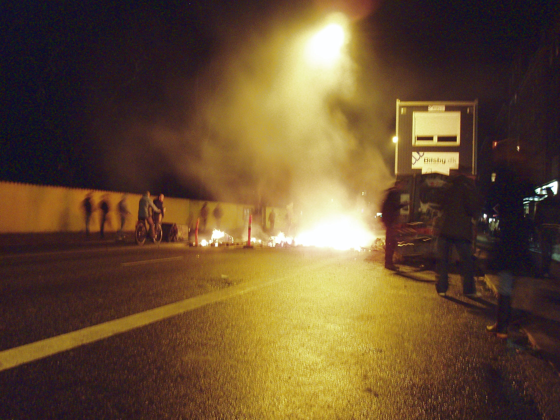 Bonfire on the street. On the evening of december 16th heavy riots from Ungdomshuset broke out on Nørrebro. Many small fires were lit in the sorrounding areas - primarily from container's contents.